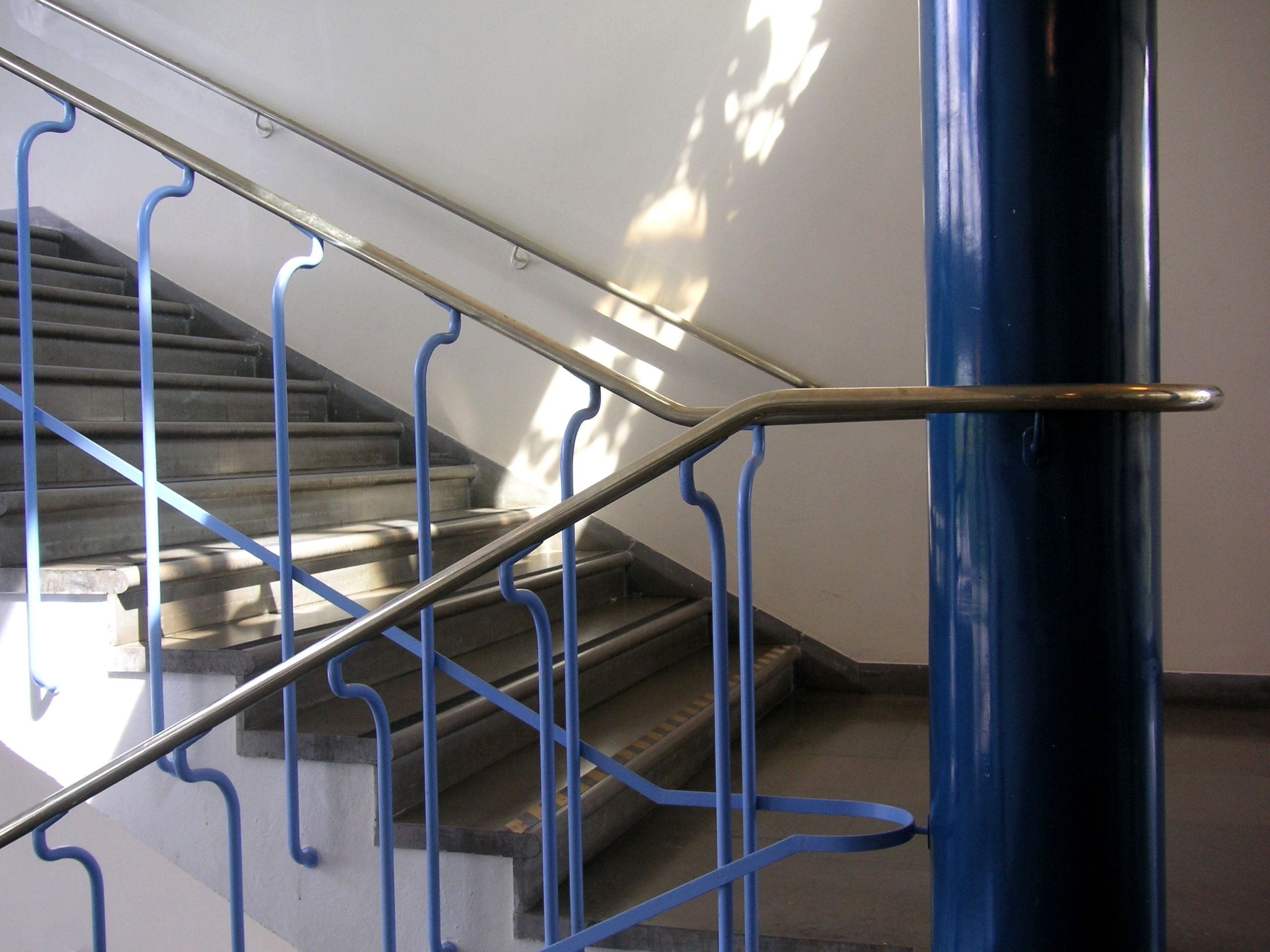 Staircase with metal stairwell railing and wall mounted handrail, Sveaplans gymnasium, Stockholm, Sweden.